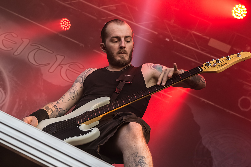 Kay Brem performing at the Rock Harz Festival with Eluveitie in 2013.